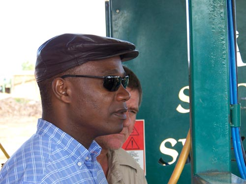 Jose Pacheco, April 25, 2007 in Lichinga, Mozambique